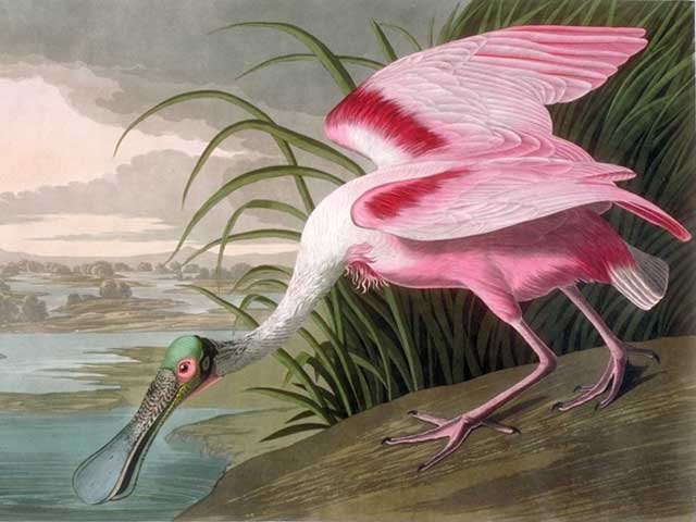 Plate 321 of Birds of America by John James Audubon depicting Roseate Spoonbill.